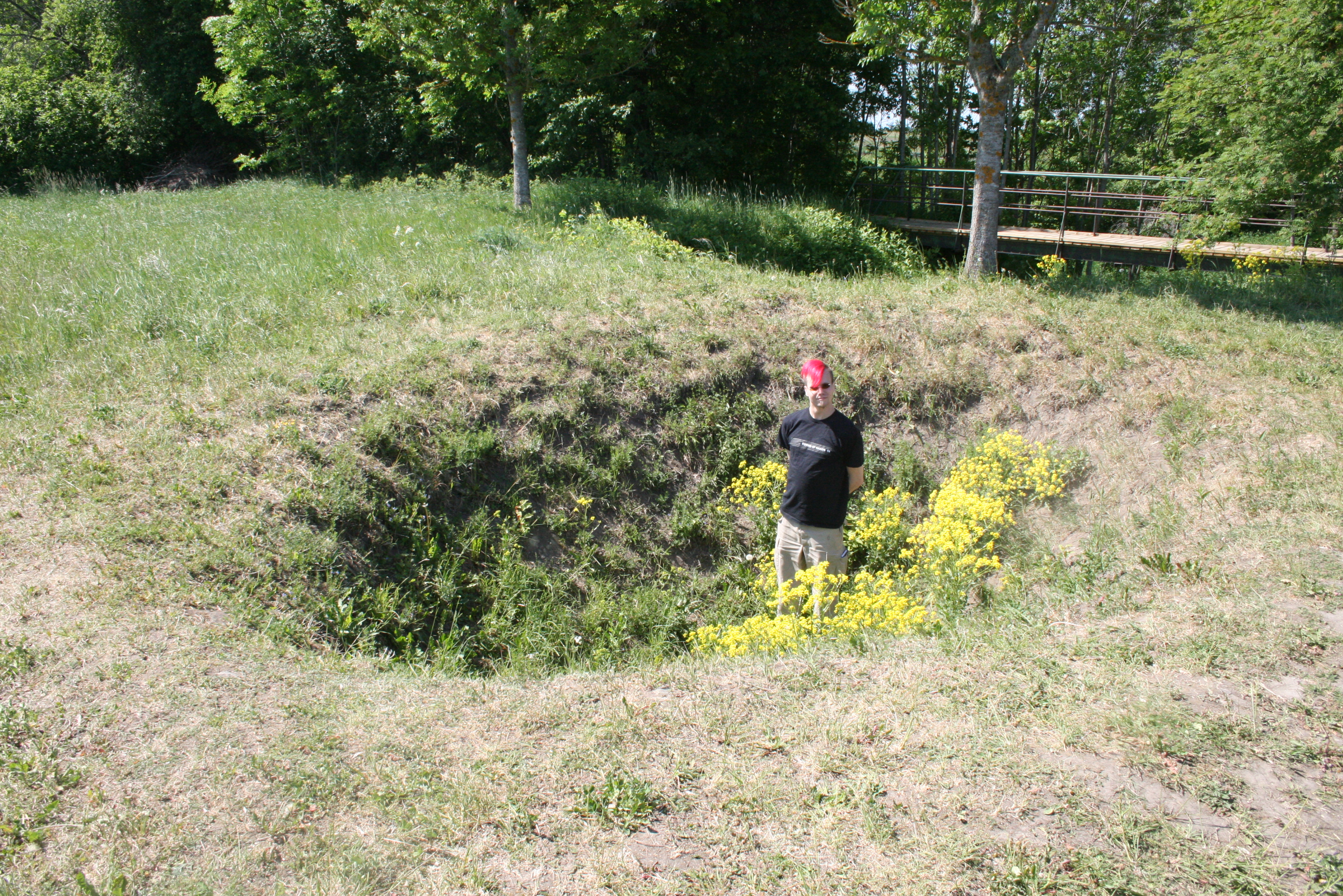 Sinkhole in Tuhala karst area. The geologist standing at the bottom of the hole for size comparison is 195 cm tall.